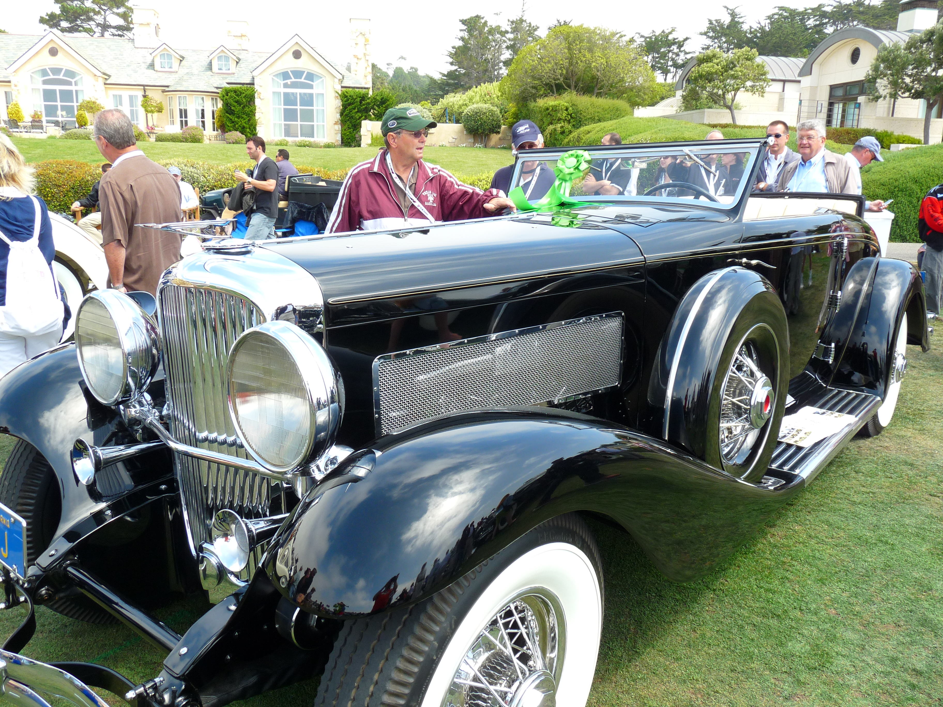 1936 Duesenberg JN Rollston Convertible Coupe